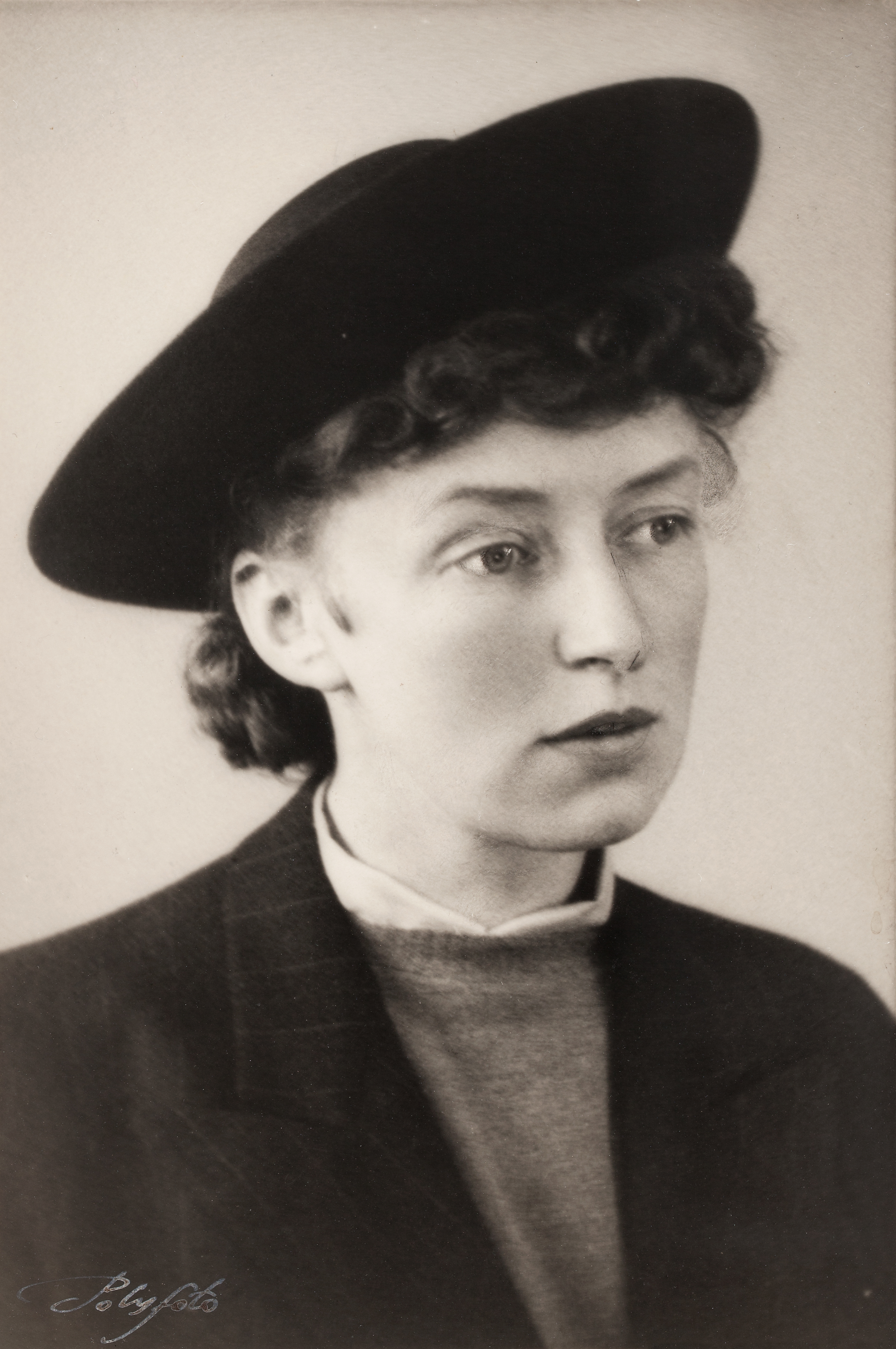 Eva Cederström, 1950-luku – 1950s, Arkistokokoelmat – Archive Collections, Kansallisgalleria – Finnish National Gallery. Kuva – Photo: Kansallisgalleria – Finnish National Gallery.